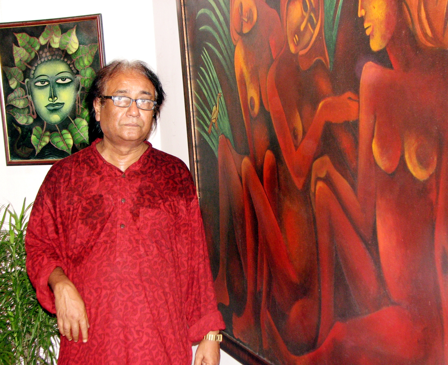 Jahar Dasgupta